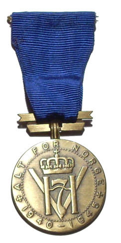 Norwegian King Haakon VII Freedom medal (WW2)